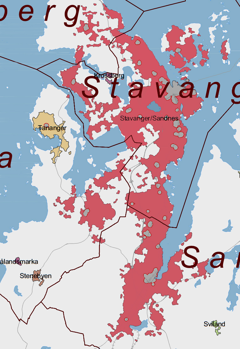 Urban area of Stavanger-Sandnes 2005